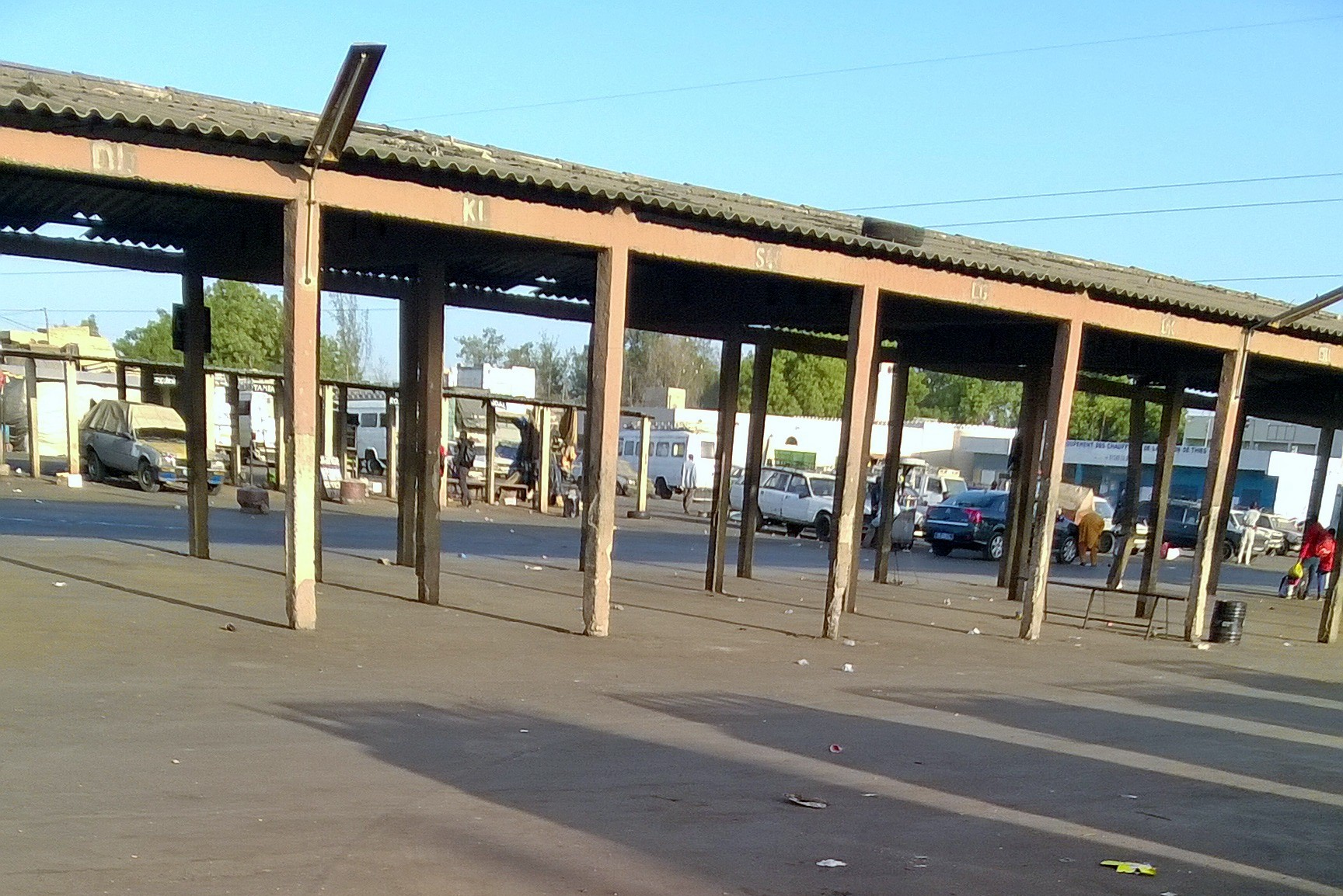 The global economy is falling due to the new coronavirus and the impacts are no longer sparing the Senegalese transport sector. thus this image perfectly illustrates the state of the bus station of Thiès.